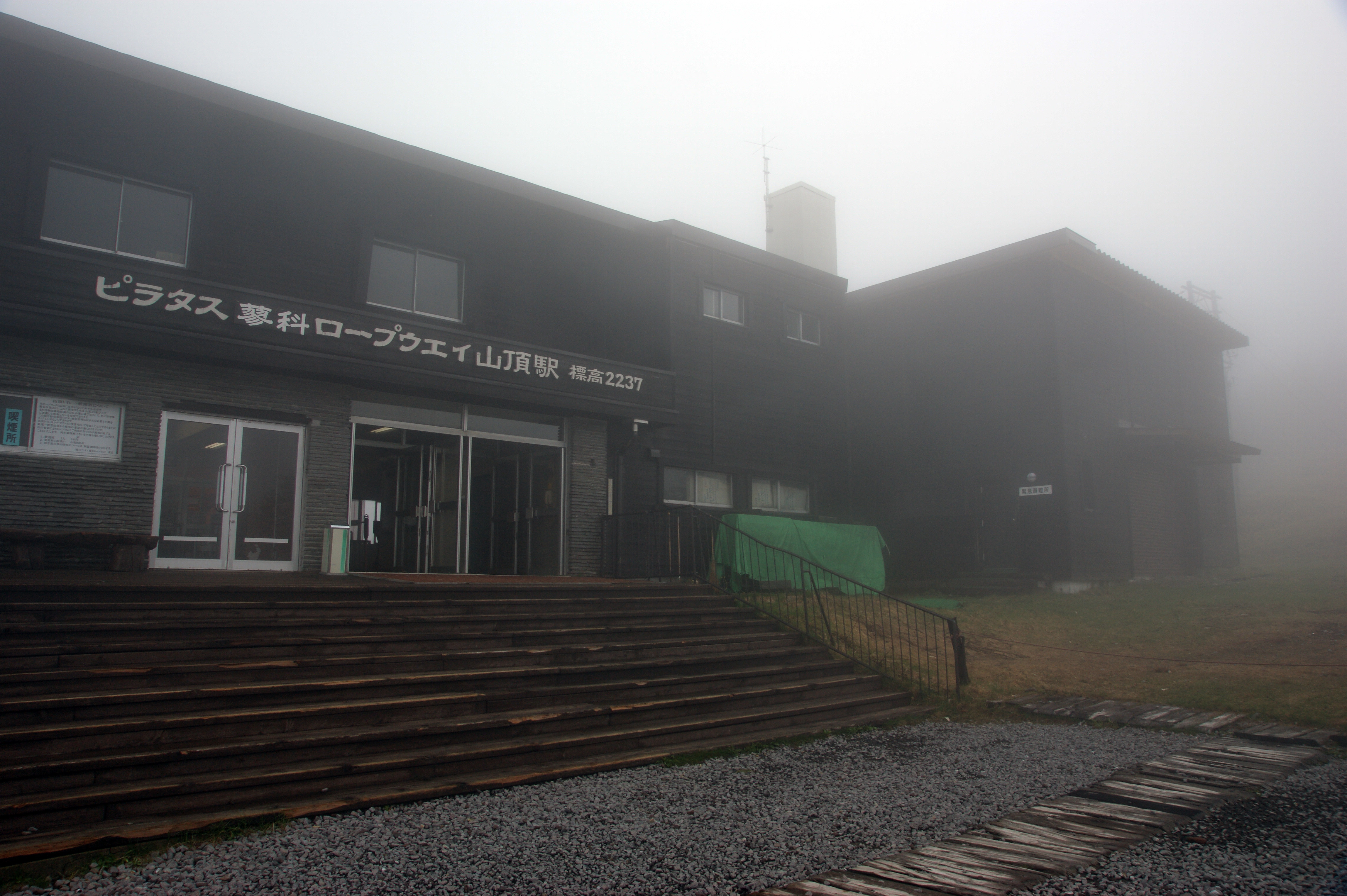 Pilatus Tateshina Rope Way in Chino, Nagano prefecture, Japan